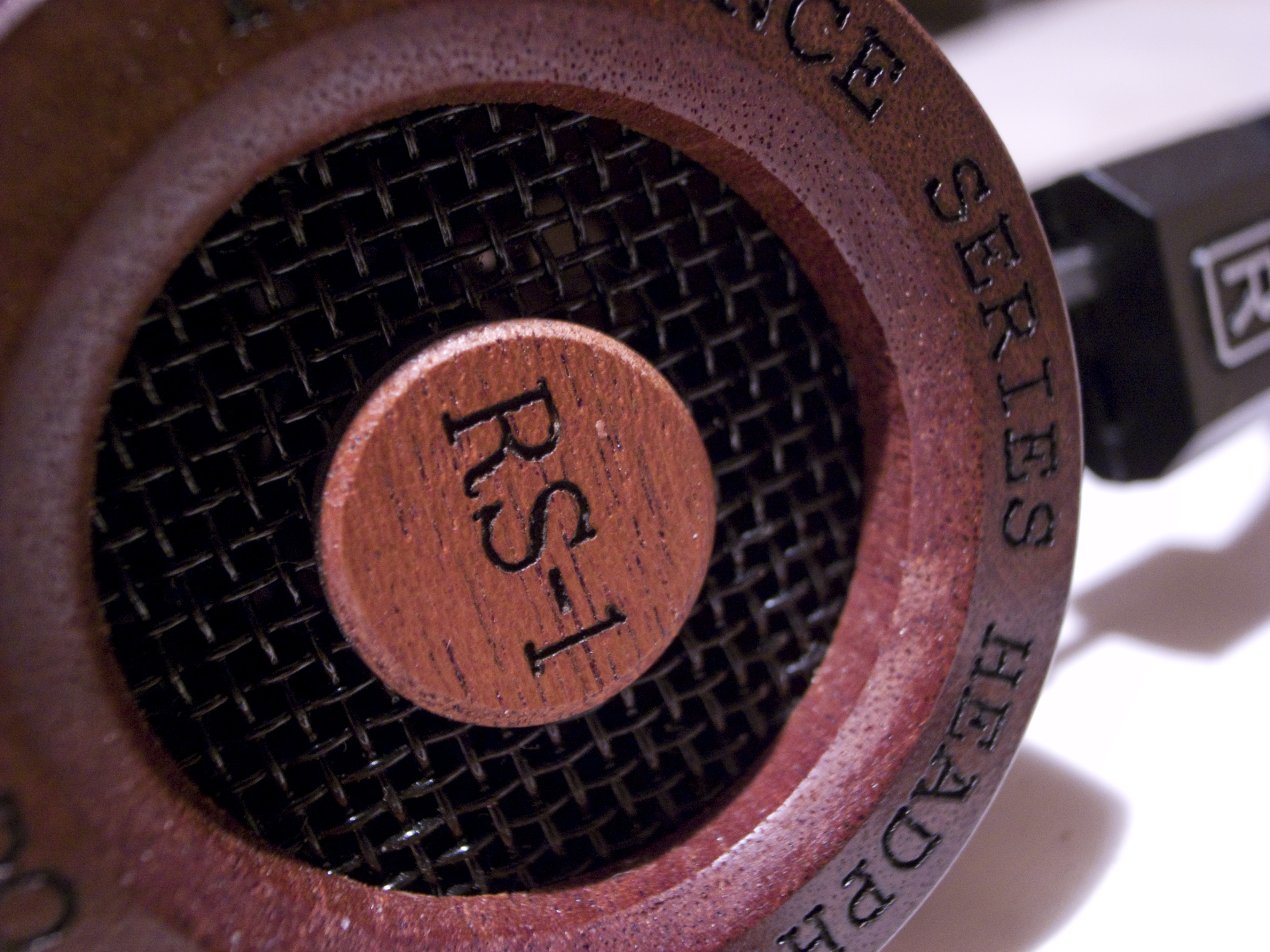 open-back dynamic headphones Grado RS1